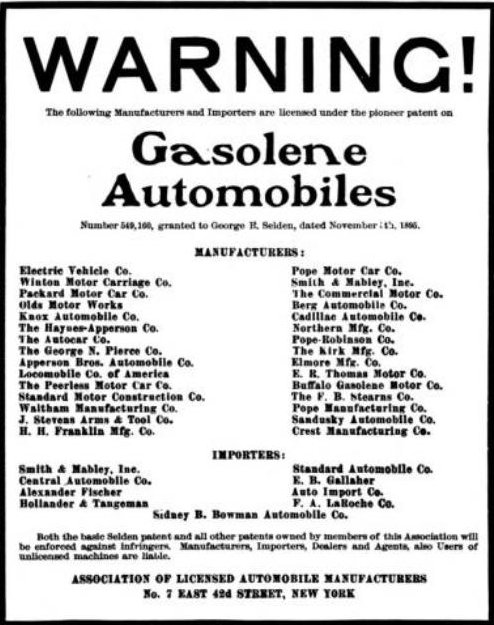 Life magazine advertisement from the ALAM; Selden Patent Title Life, Volumes 64-65 Publisher Life, 1904 Original from Indiana University Digitized Jan 30, 2009